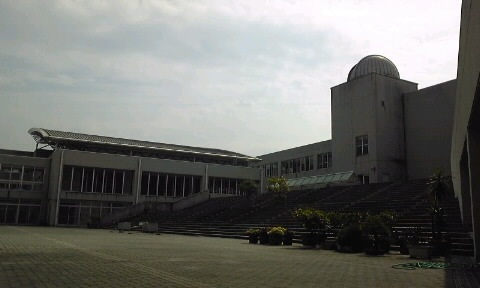 This is a picture of "Tokushimakita Senior High school's outdoor stage".